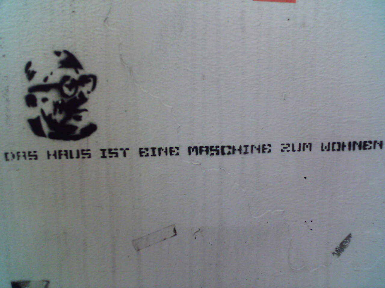 foto of this pochoir/stencil taken by myself in linz on september 28, 2005. This quote is from the architect "Le Corbusier" and means "The House is a machine to live in" (probably it goes different in english ;-))